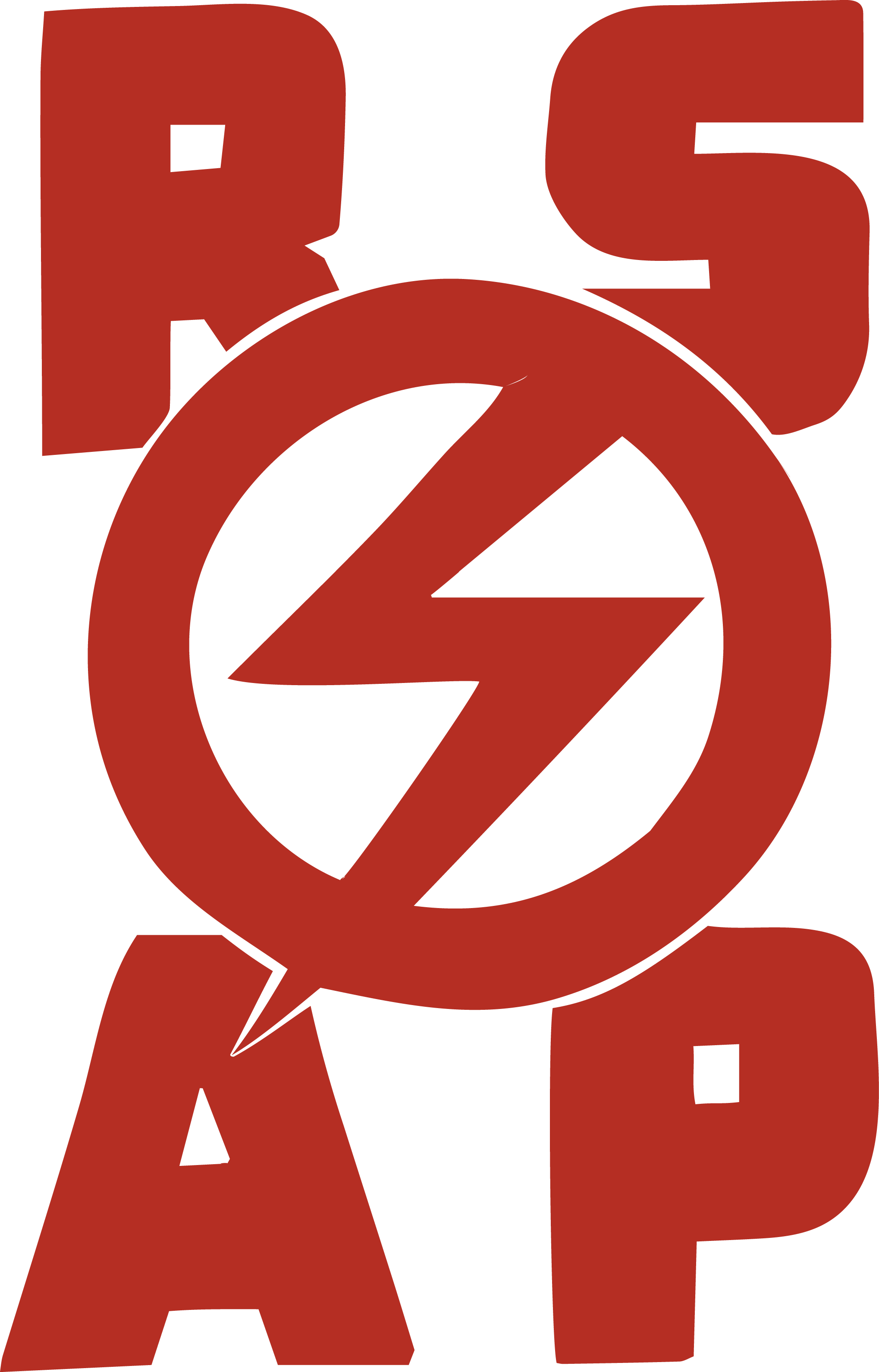 Emblem used by the Revolutionair-Socialistische Arbeiderspartij (RSAP) during the election campaign of 1937.